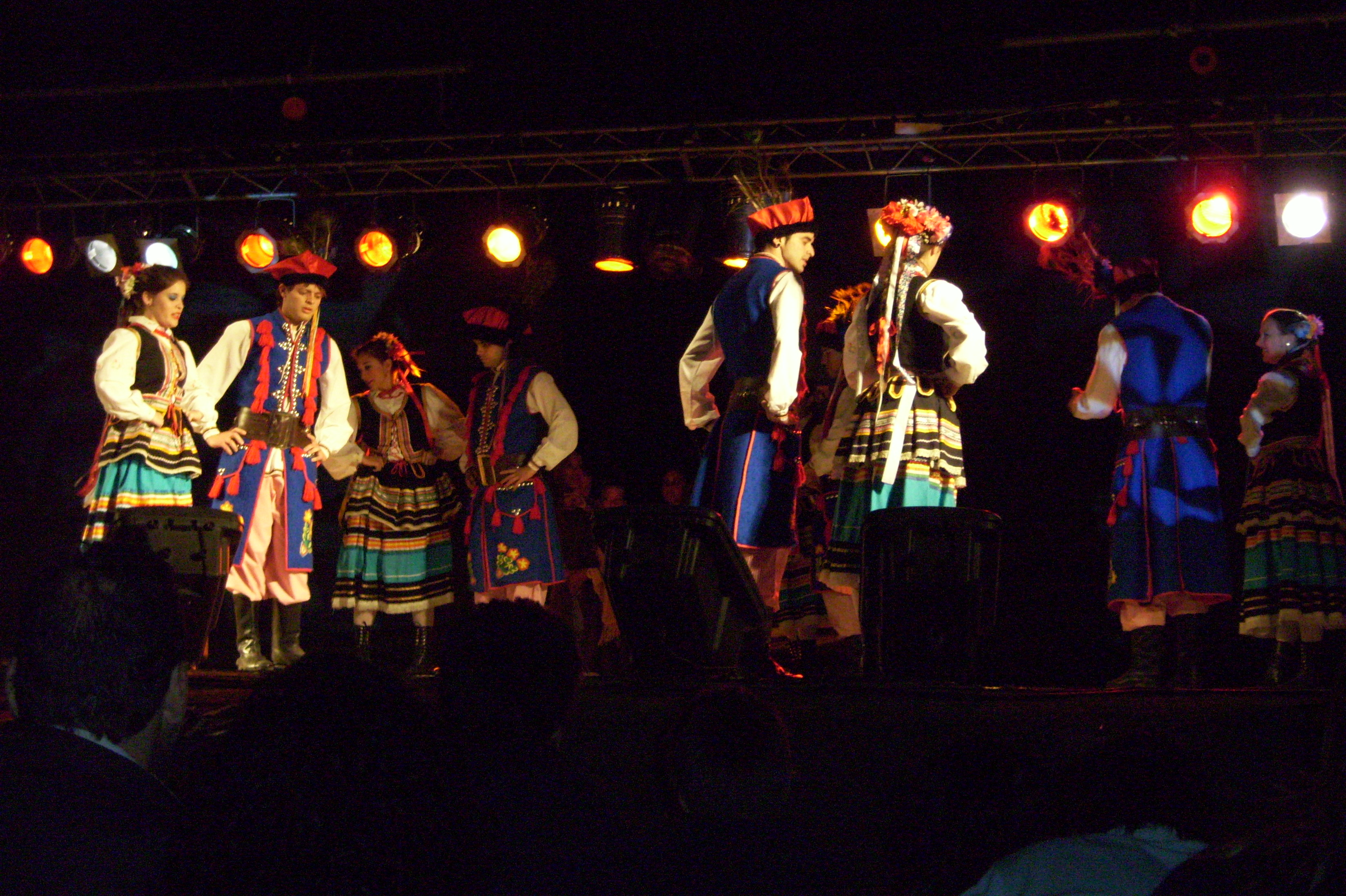 Members of the Polish collectivity's ballet from Rosario, Santa Fe perform a typical Polonesa dance during the 15th Collectivities' Festival in San Pedro, Buenos Aires Province, Argentina.